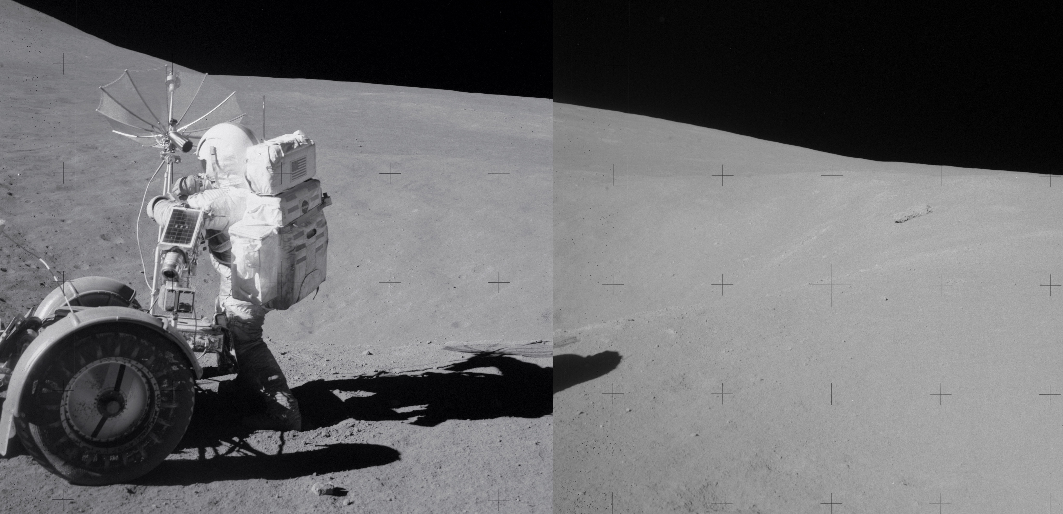 Spur crater, on the slope of Mons Hadley Delta, Hadley-Apennine, the moon. Mosaic of two images taken at Geology Station 7 on the Apollo 15 mission. Shows north rim of Spur at right, with large boulder. Astronaut David Scott is at left.